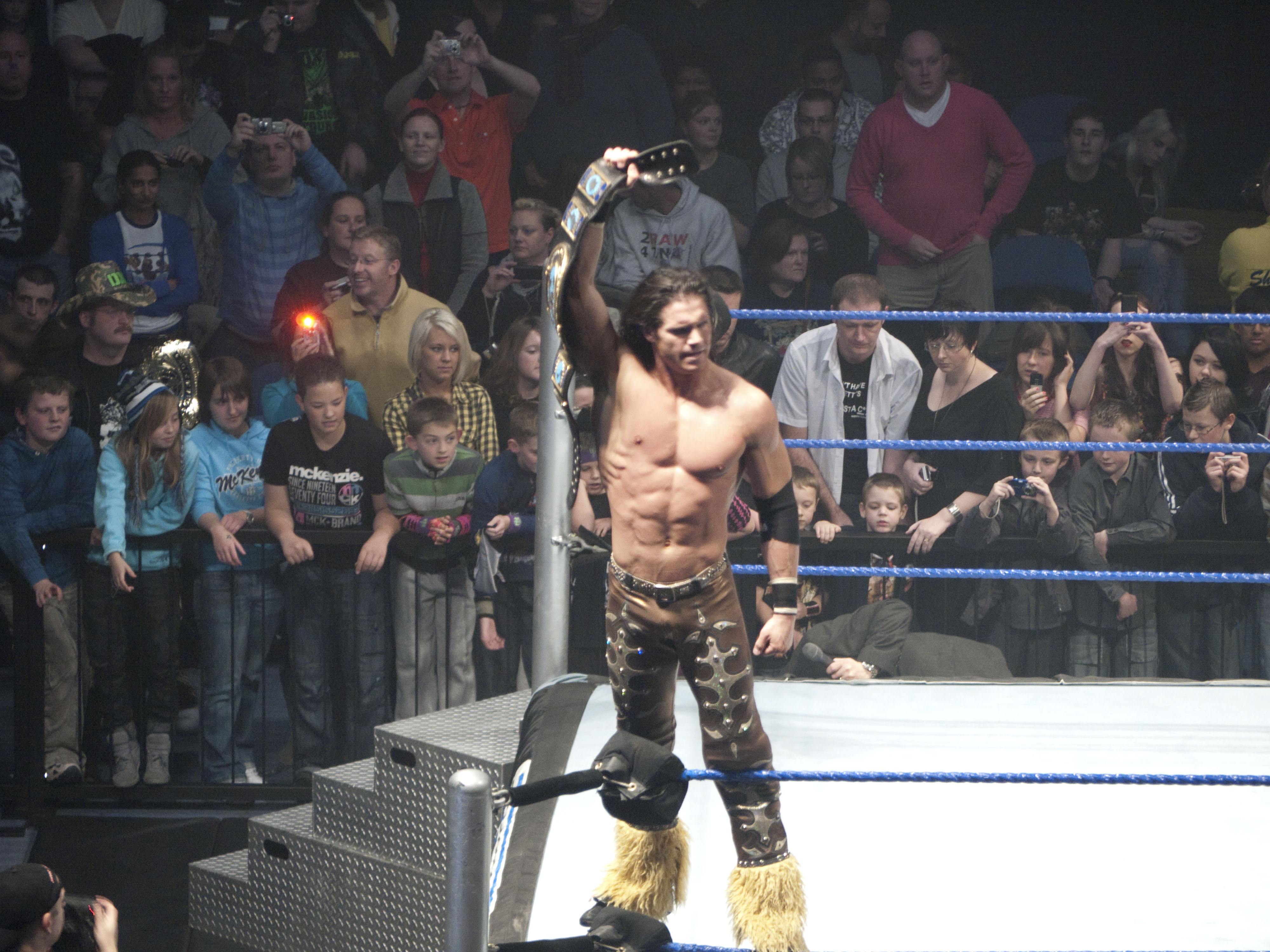 john morrison as IC Champion